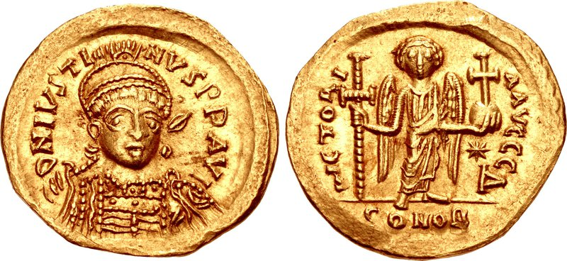 Justin I. 518-527. AV Solidus (21mm, 4.22 g, 6h). Constantinople mint, 4th officina. Struck 522-527. D N IVSTI NVS P P AVC, helmeted and cuirassed bust facing slightly right, holding spear over shoulder in right hand and shield decorated with horseman motif in left / VICTORI A AVCCC, angel standing facing. holding jeweled cross in right hand and globus cruciger in left; Δ//CONOB. DOC 2d; MIBE 3; SB 56.